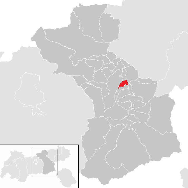 District Schwaz